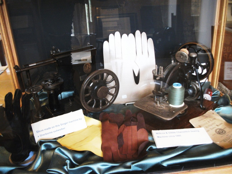 Museum display of Sherborne's silk and gloving industries.